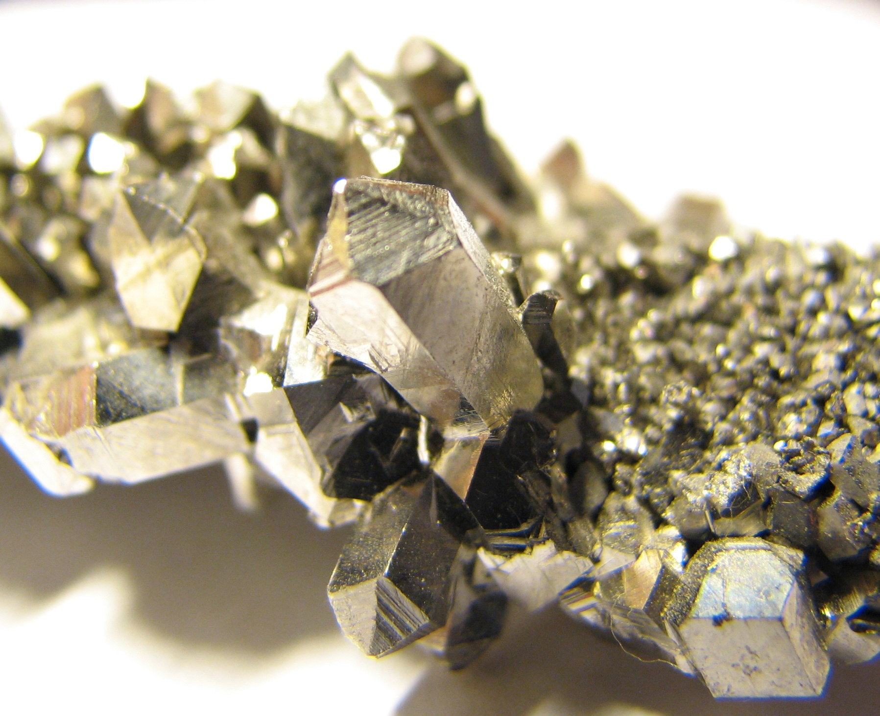 Niobium crystals. Central crystal size about 7mm